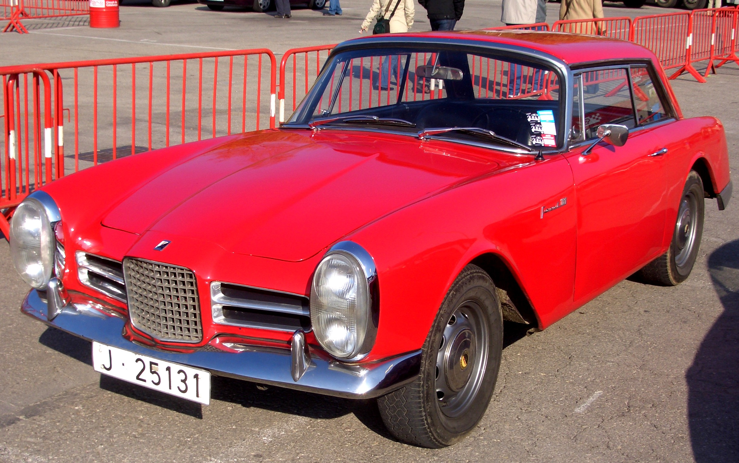 A Facel Vega Facel III photographed at the Circuit de Catalunya in Barcelona, November 2007.